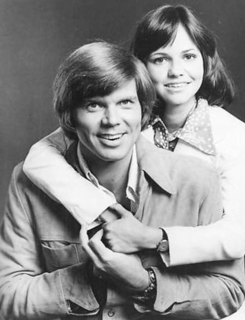 Publicity photo of John Davidson and Sally Field from The Girl With Something Extra.